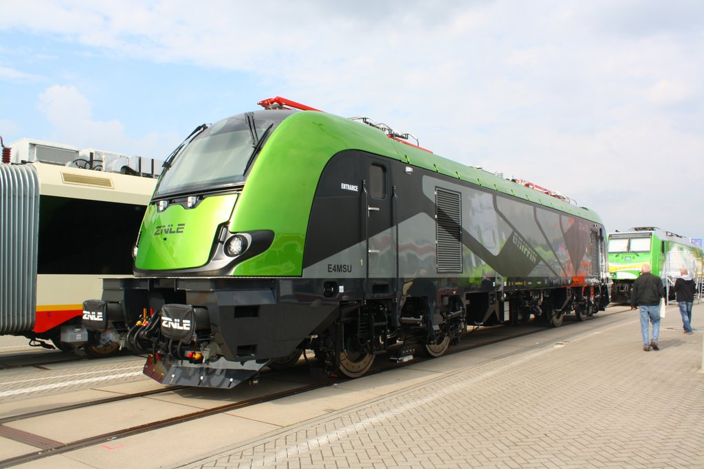 The polish rail industry is arguably the most interesting at the moment, and not just since DB ordered 470 PESA LINK. Many larger or smaller companies there believe that there is a lot of future in building rail vehicles, for the domestic polish market, all of eastern Europe, and more and more, the west, with its many established train builders. The sign this year: Two separate polish companies announced their families of international, modular high-powered electric locomotives. Pesa showed their Gama, while ZNLE (of previous Dragon/E6ACT fame) is presenting the Griffin. Griffin is a modular platform for freight and passenger electric locomotives, in DC, AC or four-system versions and with two different top speeds. It was developed in less than twenty months, and competes directly with the latest and greatest from Siemens, Bombardier, and possibly Alstom, if they ever finish their Prima II. One thing you can say about the polish offerings: Their designs sure are memorable. Now, the big question is whether there will be orders. None of the contenders have managed to sell more than ten of their next-generation electric locomotive designs in Europe so far, but clearly, they are hopeful for the future.